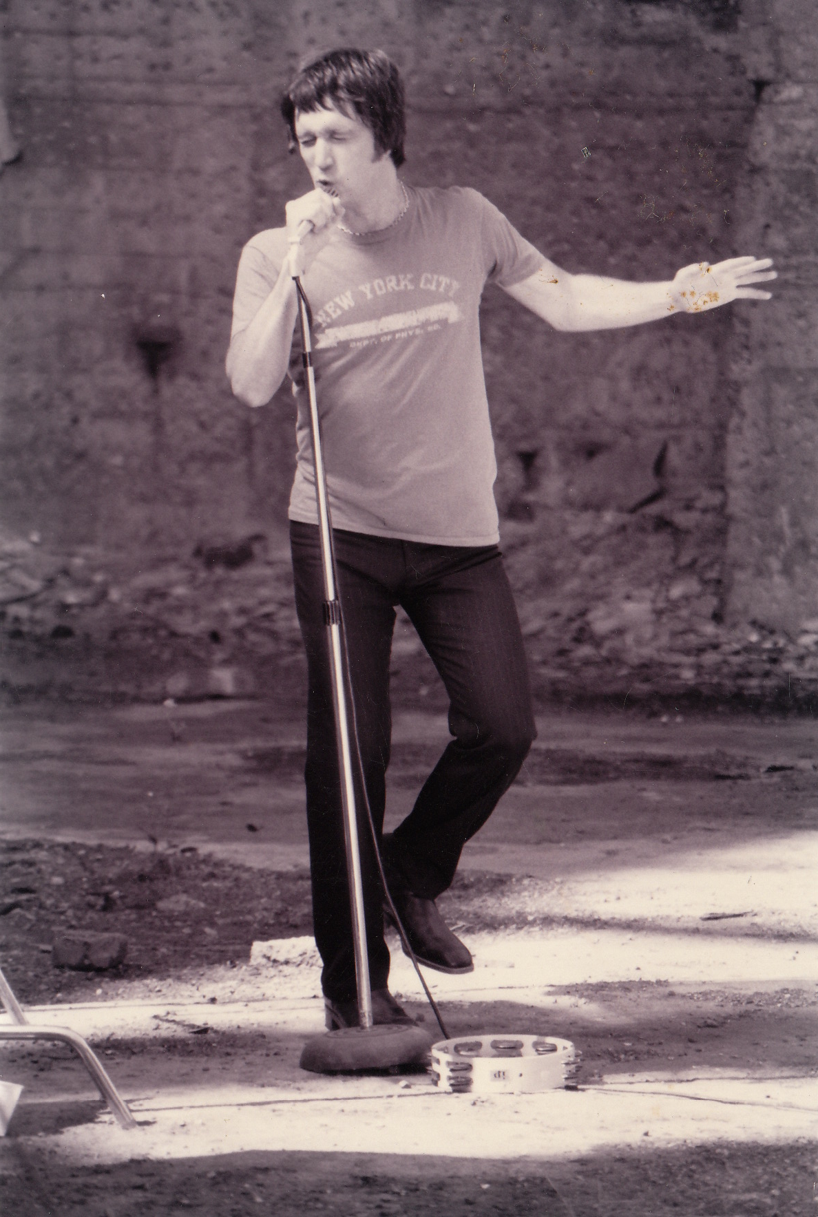 Howard New filming the music video for Battlefield inside Battersea Power Station.